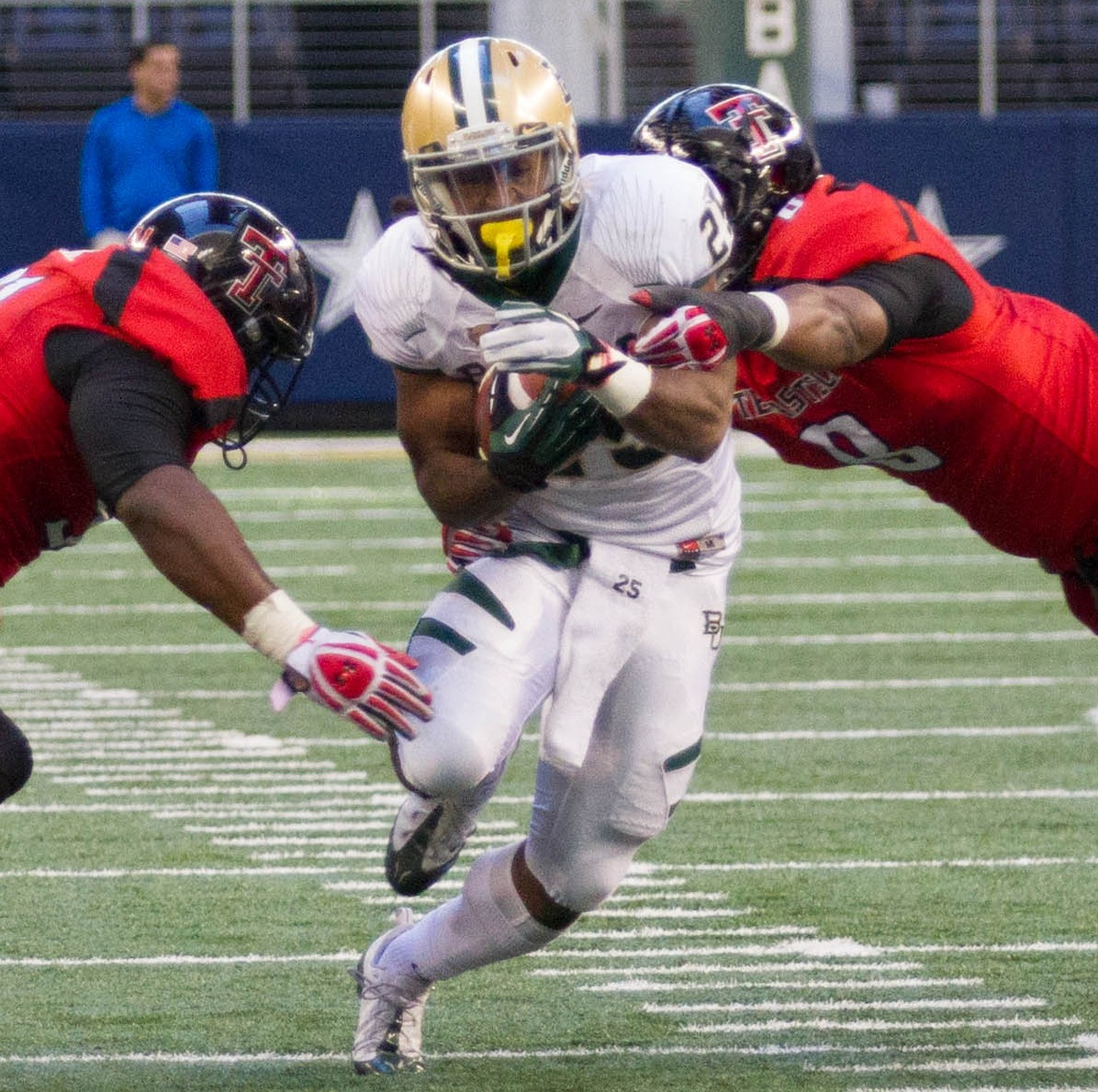 Baylor Bears running back, Lache Seastrunk, in a game against Texas Tech Red Raiders in 2012.